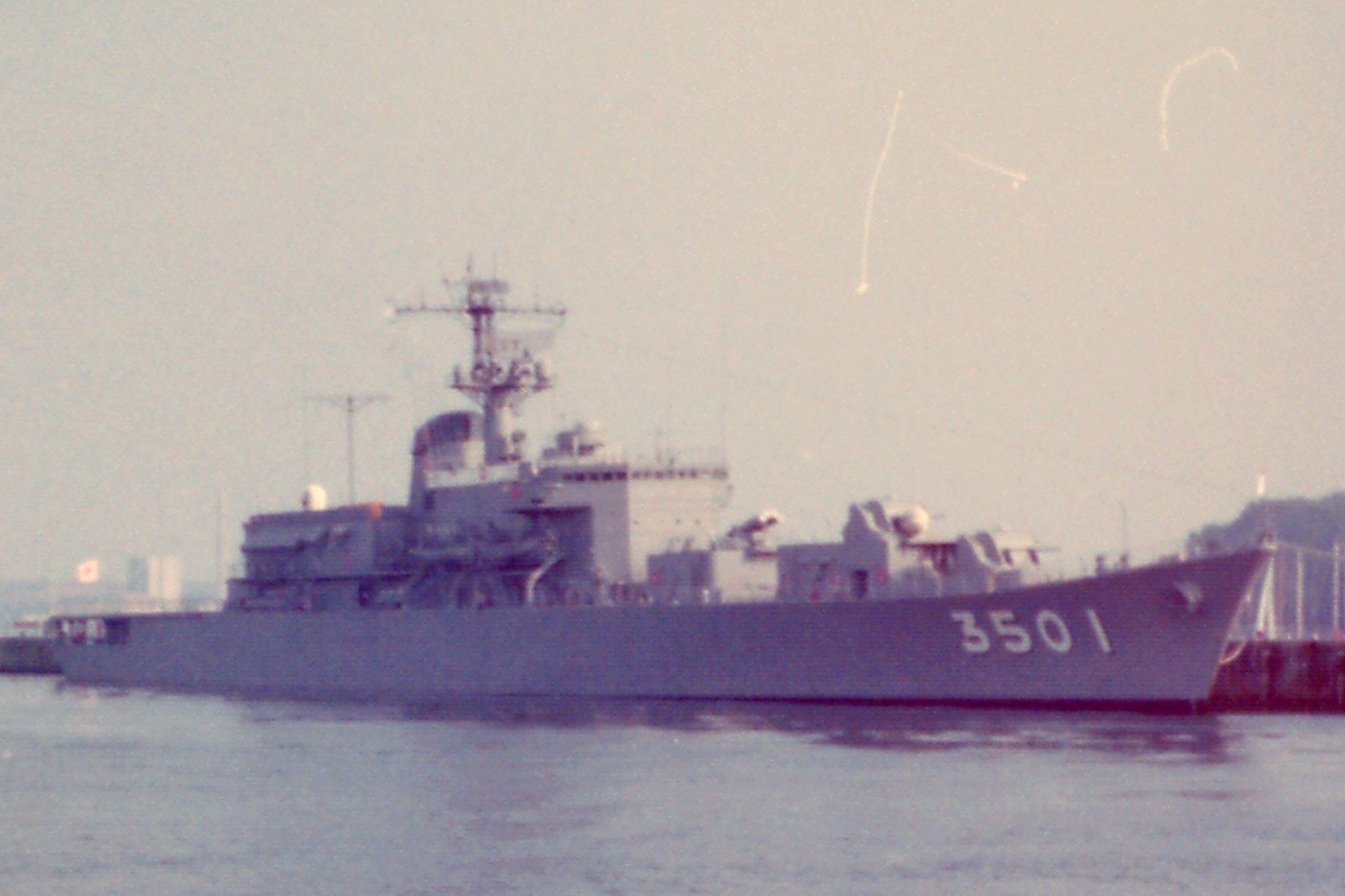 Japanese training ship Katori (3501)